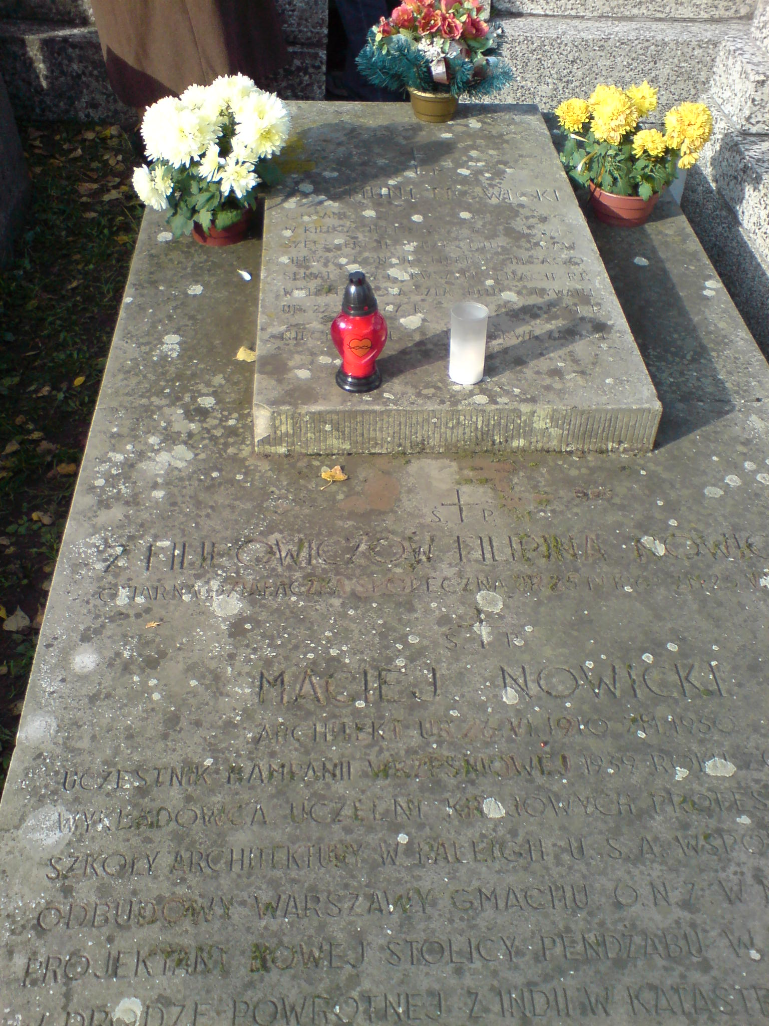 The Warsaw grave of Maciej Nowicki, famous Polish architect, who died in a plane crash in Egypt. Warsaw Wawrzyszew Cemetary, section 4a.